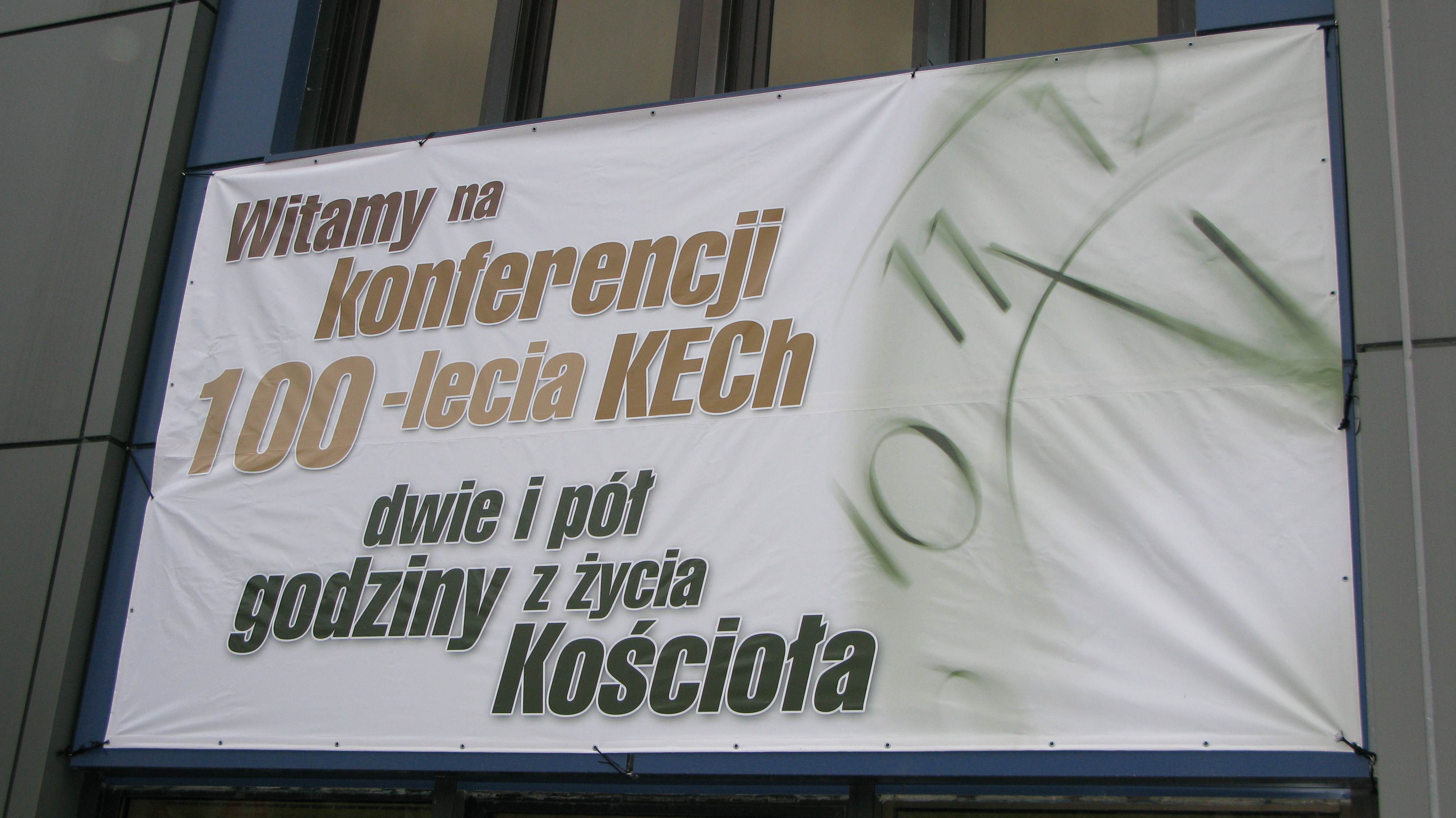 Banner: the 100th anniversary of the Evangelical Christians' Church in Poland